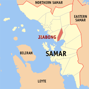 Map of Samar showing the location of Jiabong